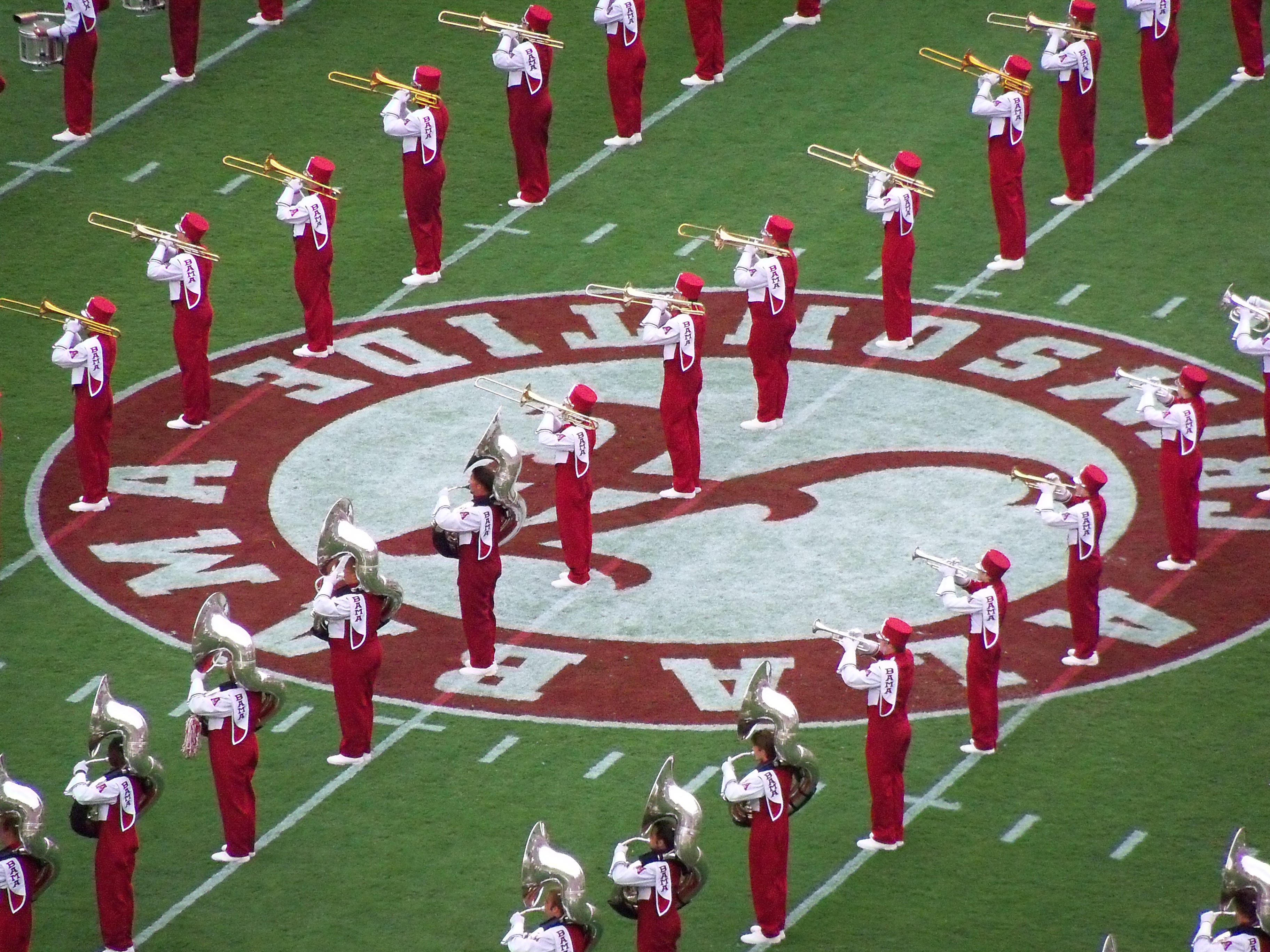 Alabama's Million Dollar Band on the field prior to a football game against Penn State.